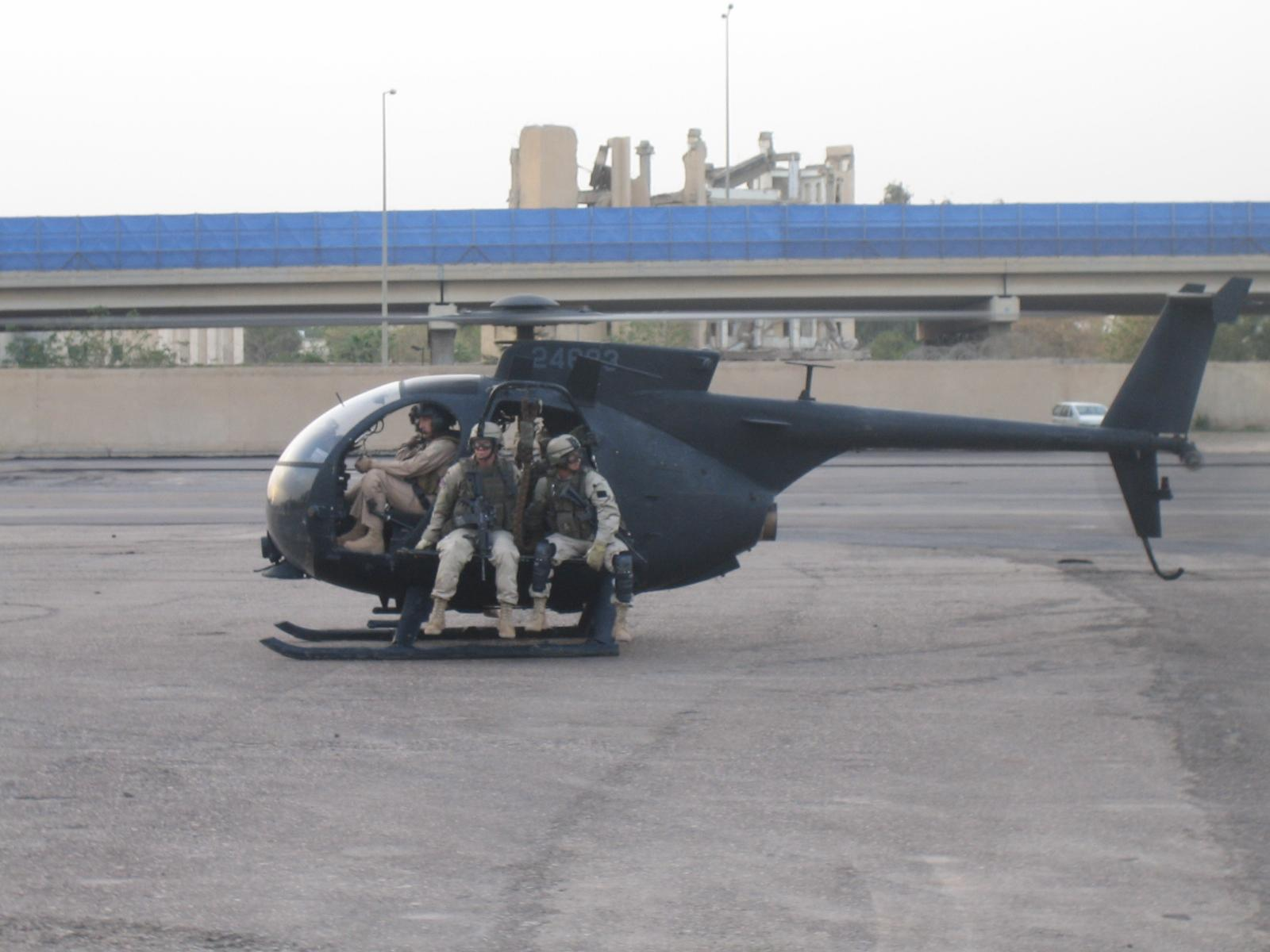 The Hughes Helicopters OH-6 Cayuse (nicknamed Loach) is a single-engine light helicopter with a four-bladed main rotor used for personnel transport, escort and attack missions, and observation. Hughes also developed the Model 369 as a civilian helicopter, the Hughes Model 500, currently produced by MD Helicopters.OH-6 Cayuse